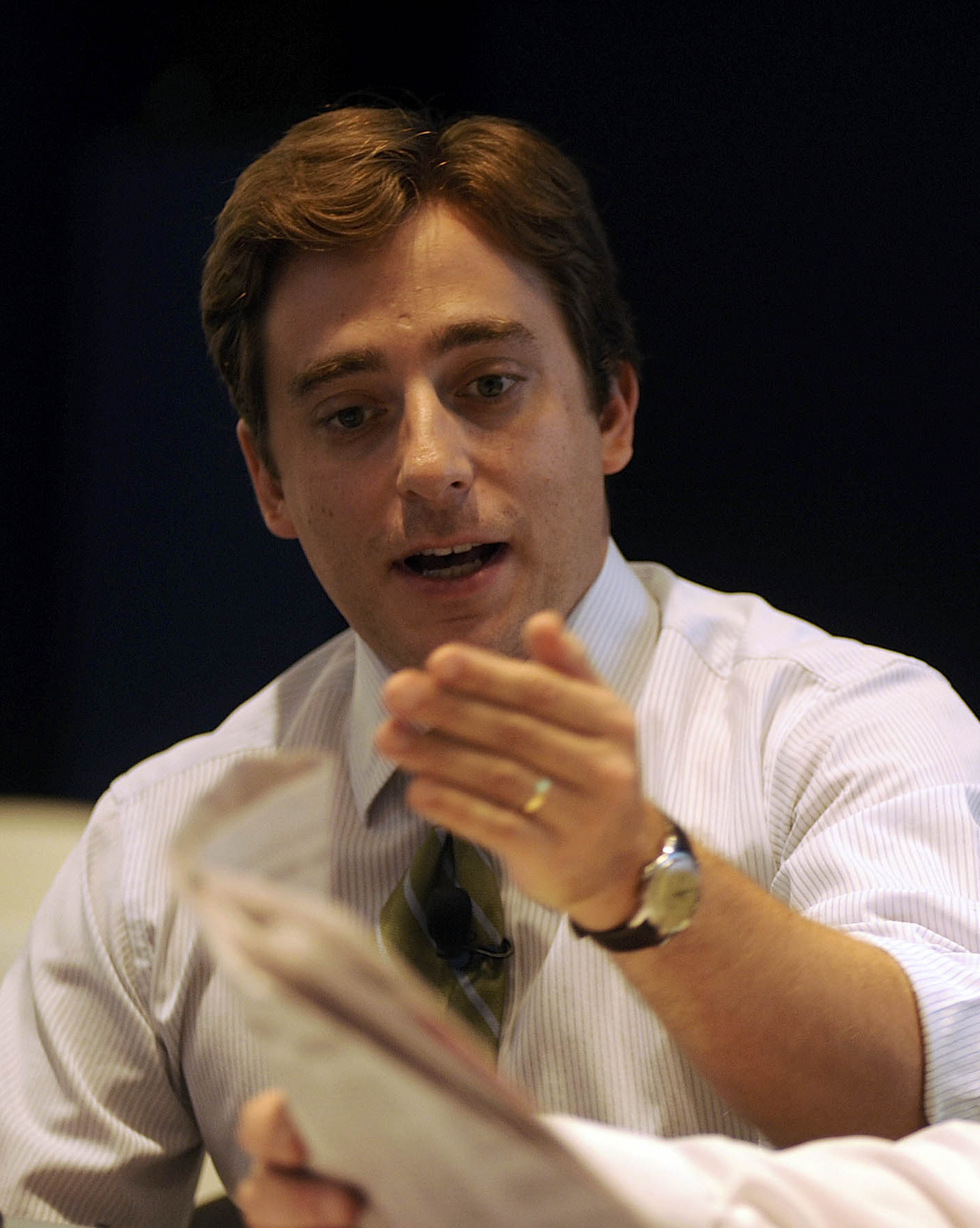 DALIAN/CHINA, 15SEP11 - Evan Osnos, China Editor, New Yorker Magazine, speaks with Nik Gowing, Main Presenter, BBC World News, during the "In the News" sessions at the World Economic Forum's Annual Meeting of the New Champions in Dalian, China, September 15, 2011. Copyright World Economic Forum ( Nadel